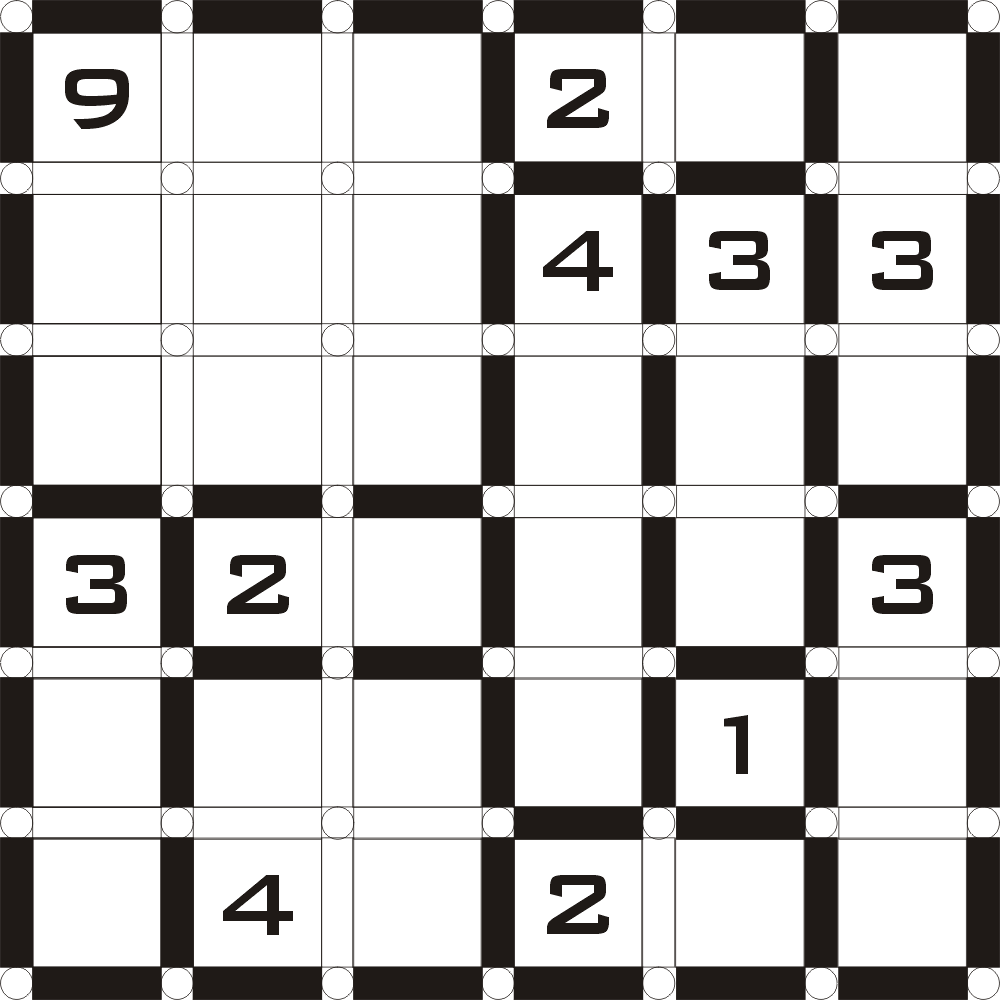 Plot of a Sikaku.